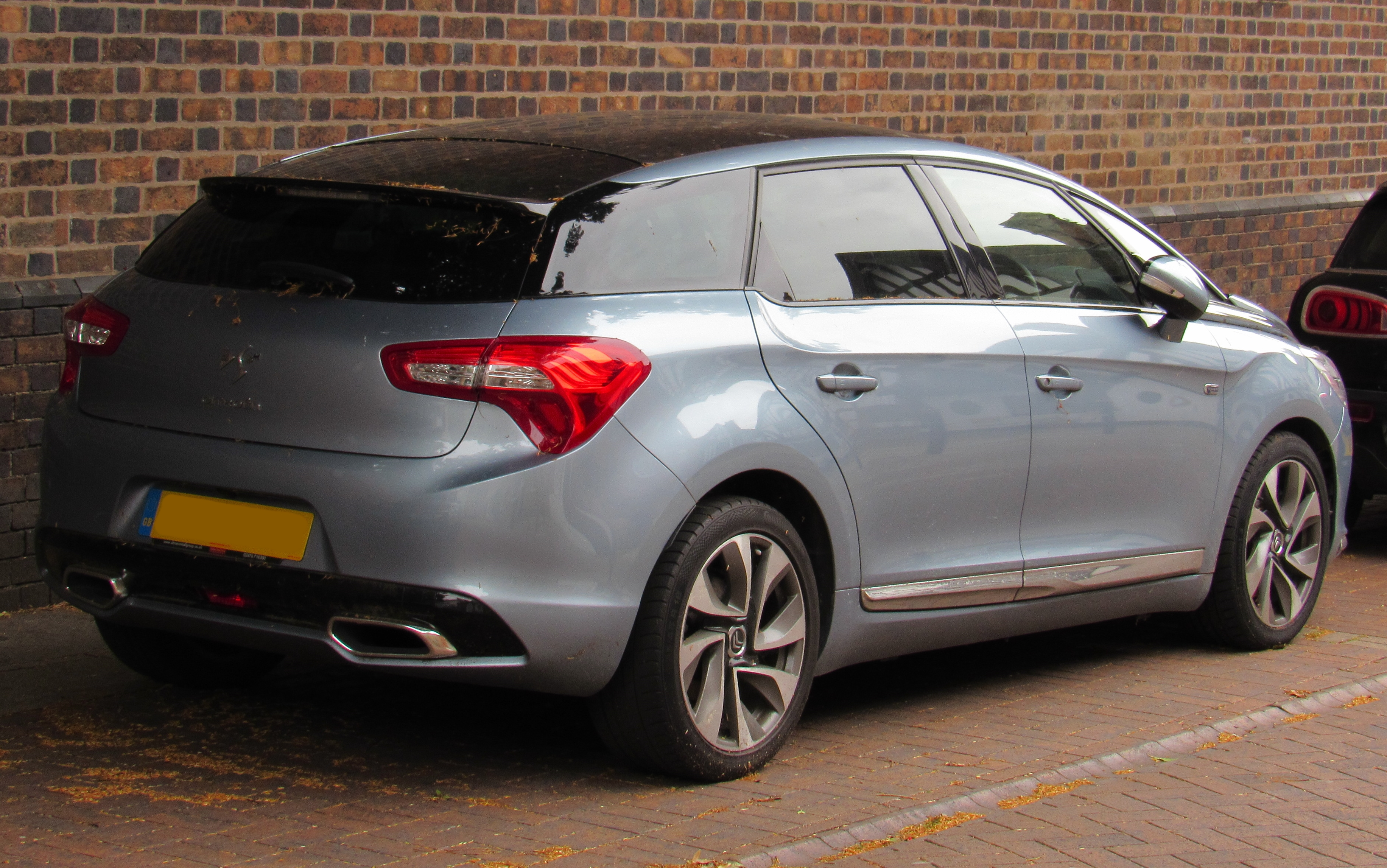 2013 Citroen DS5 DSport HYbrid4 S-A 2.0 Rear Taken in Warwick